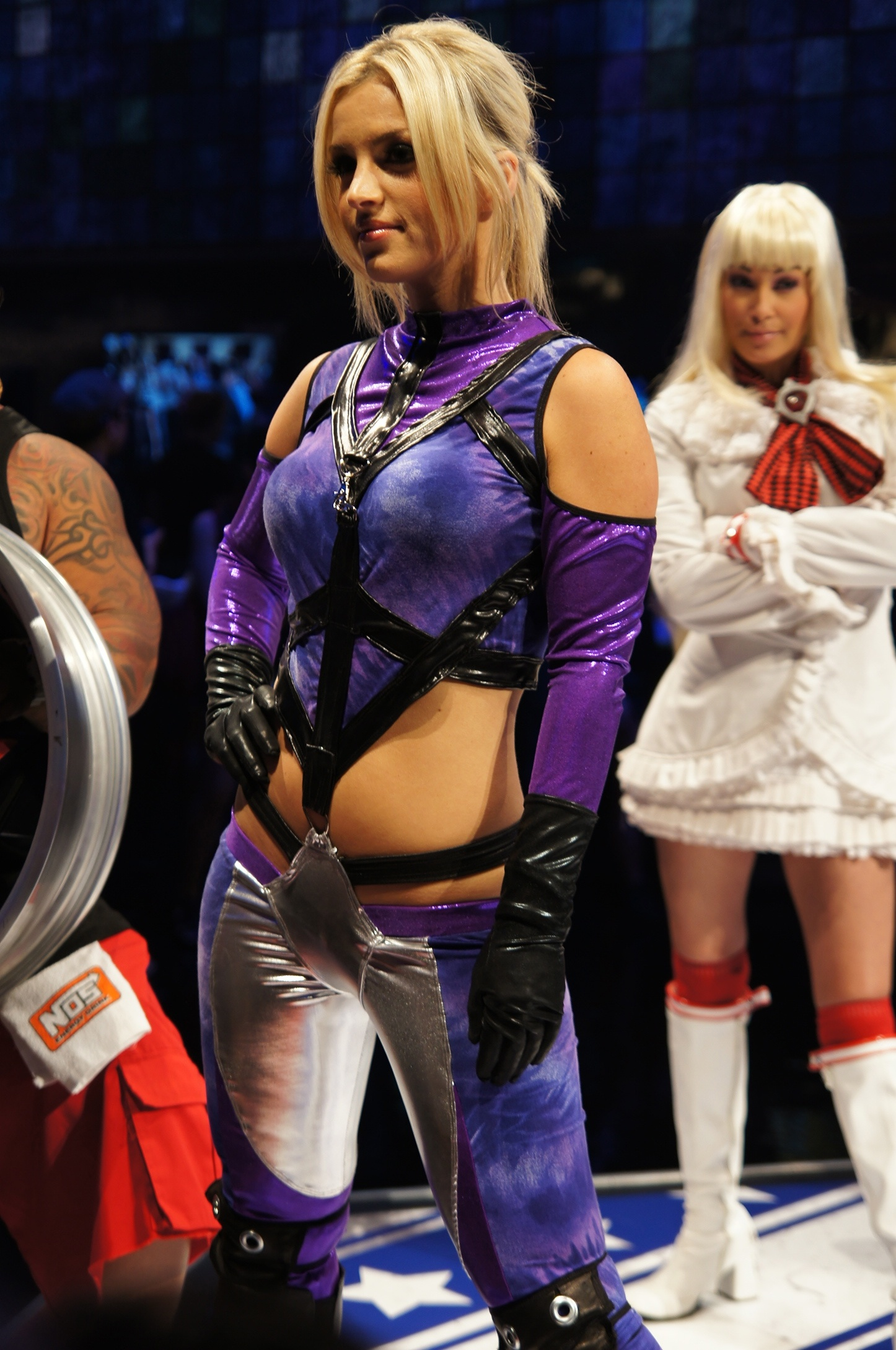 Promotion of the fighting game Tekken Tag Tournament 2 at Electronic Entertainment Expo 2012.